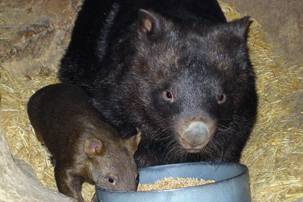 Ballarat Wildlife Park, Ballarat, Australia, wombats